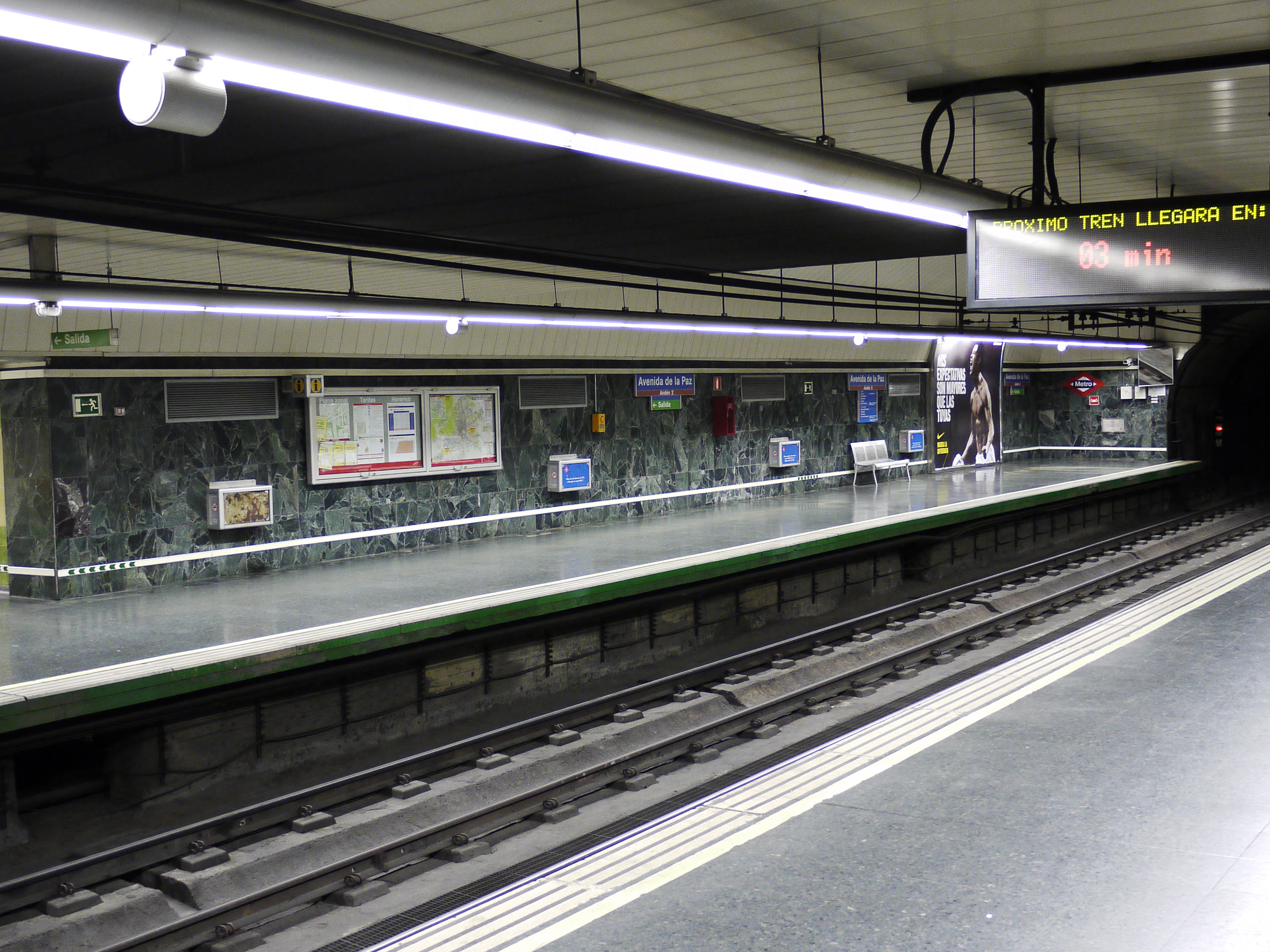 Madrid Metro station: Avenída de la Paz. Madrid, Spain